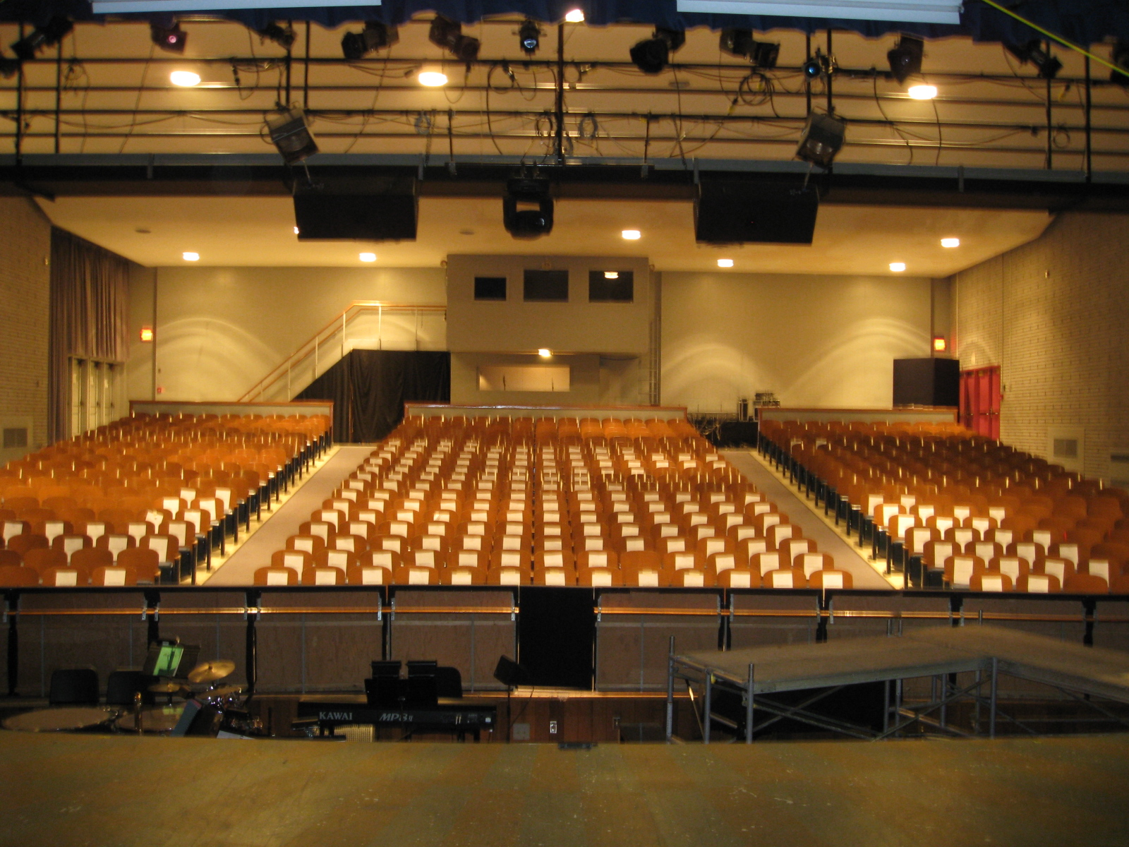 The Nancy Main Auditorium as viewed from the stage